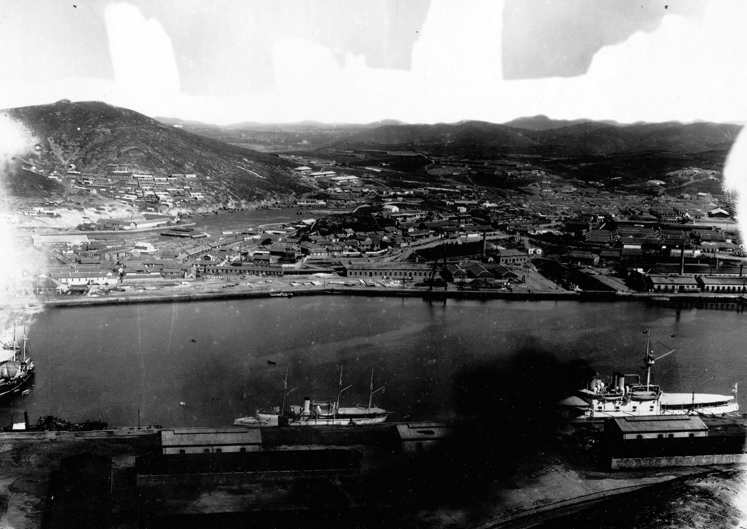 The Imperial Russian seagoing gunboat «Bobr» and battleship «Navarin» at Port-Arthur.